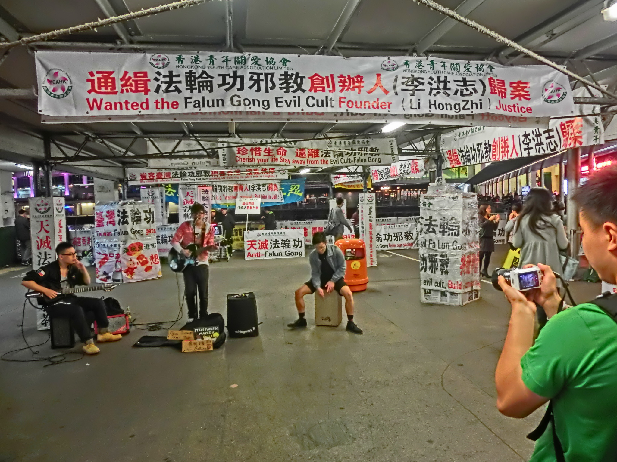 Street musical group at night in Salisbury Road, Tsim Sha Tsui, Hong Kong